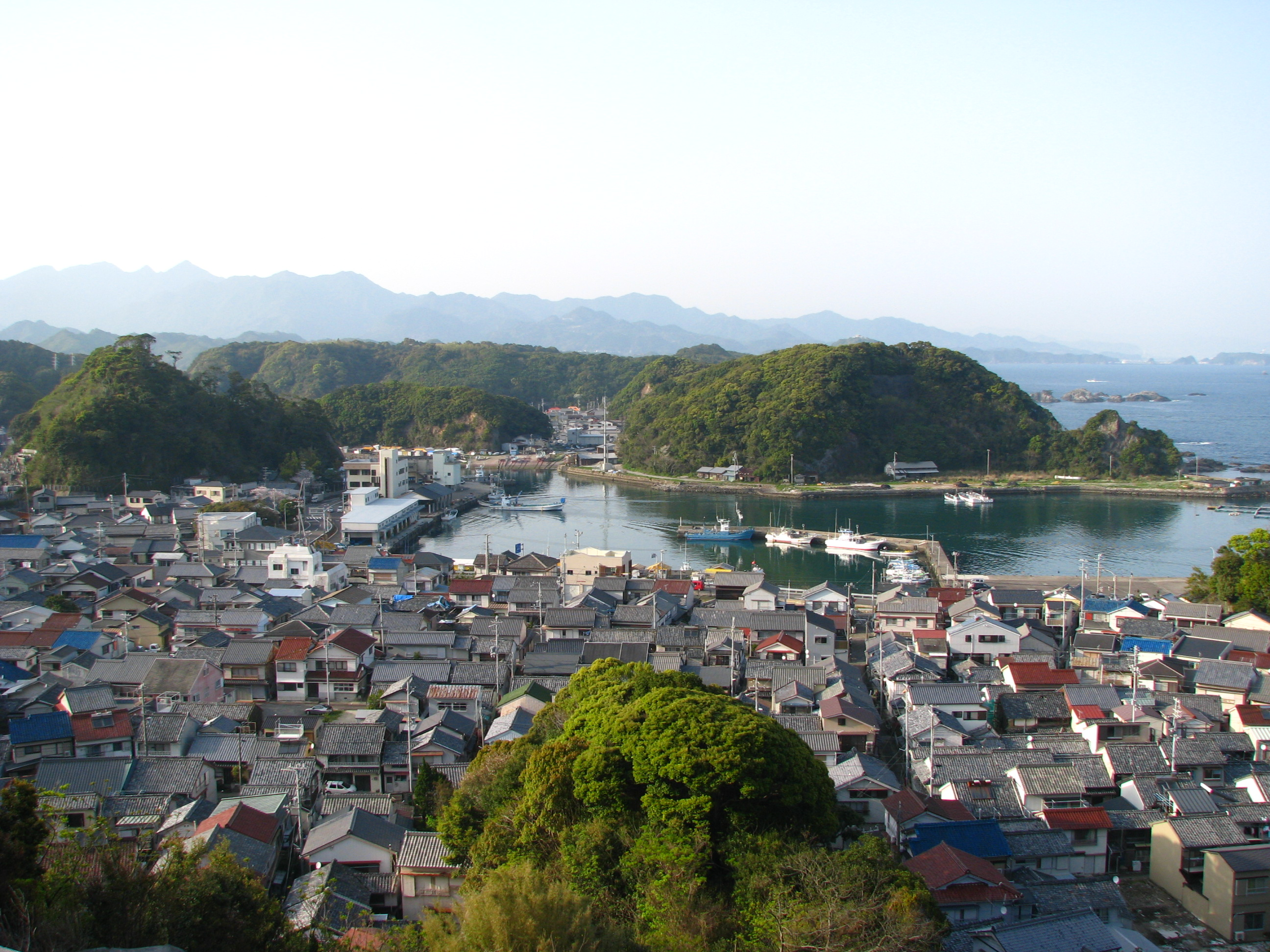 View of Taiji from the south. The marina is in the center, the Pacific Ocean is to the right.